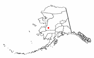 Adapted from Wikipedia's AK borough maps by Seth Ilys.